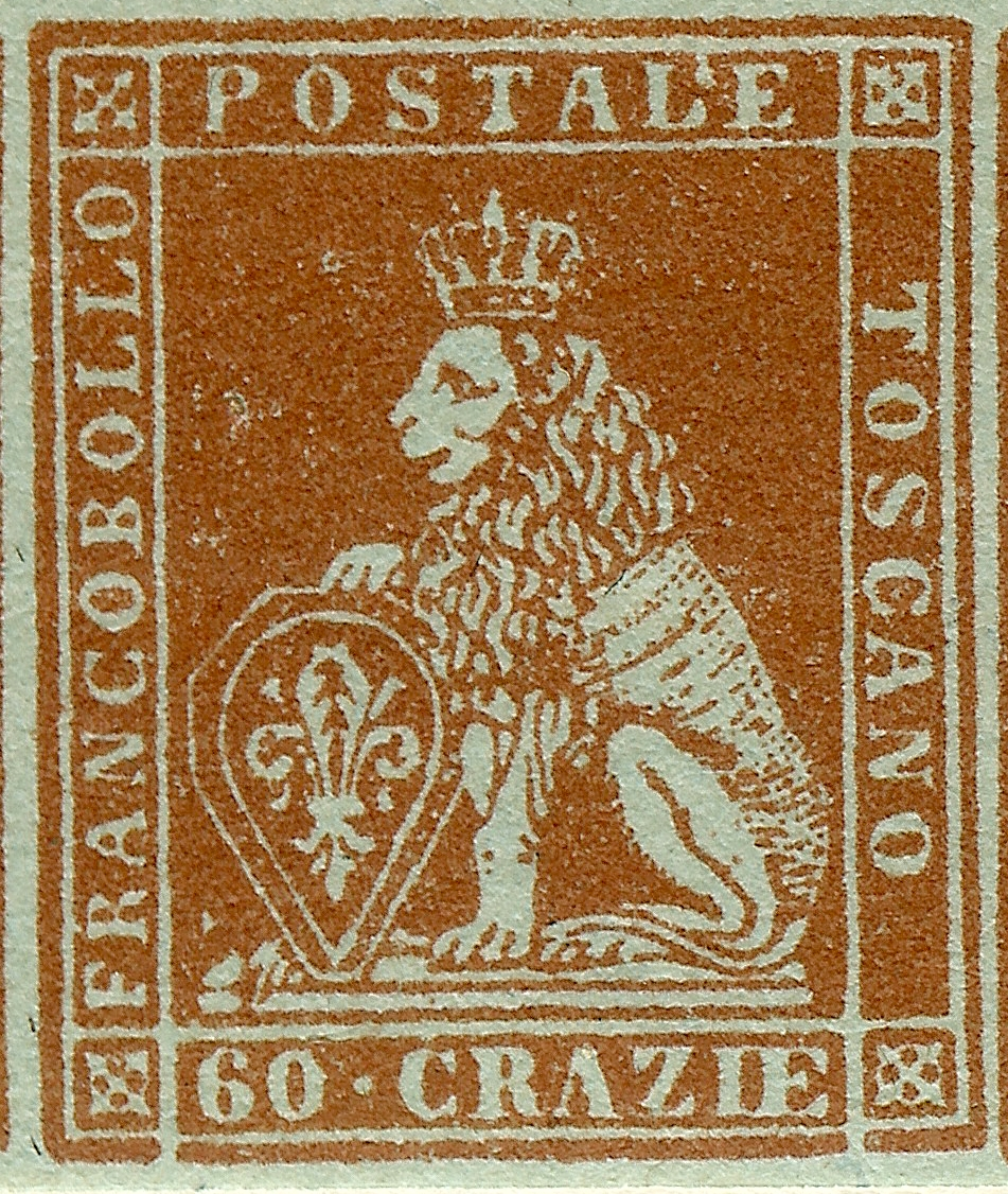 This is a scan I made of a Fournier fake of a postage stamp from Tuscany, originally issued in 1852, (Scott Catalog no. 9) and consequently not subject to any copyright world wide.